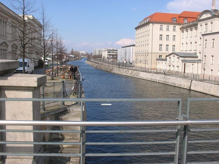 „Berlin-Spandauer Schifffahrtskanal“. View from Sandkrugbrücke, Invalidenstraße. On the left the former „Hamburger Bahnhof“ (train station), today museum for present art. On the right Federal Ministry for Economics and Labour (Germany)